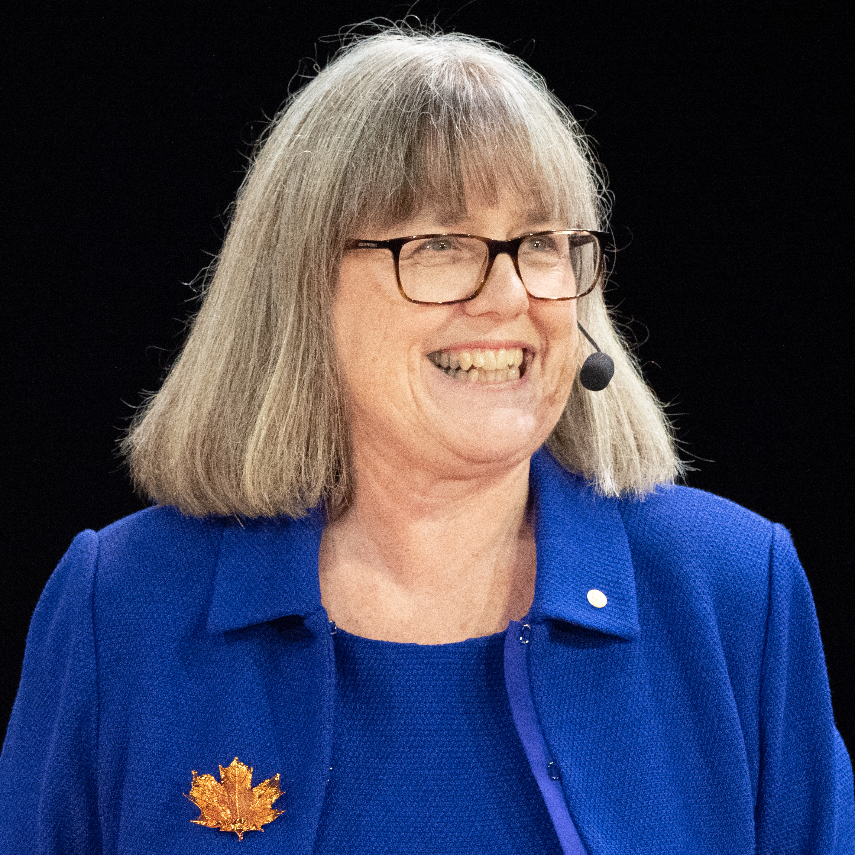 Nobel Laureates in Physics 2018, Stockholm, Sweden, December 2018